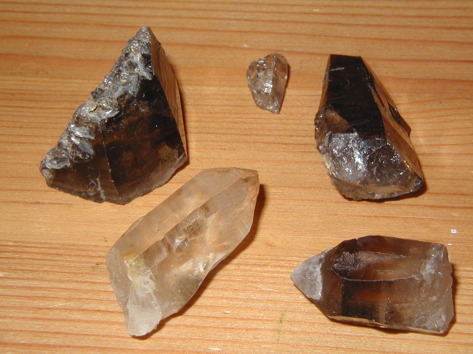 Rock crystals collected on 6 Aug 1976 near the North-Cape (Norway). Picture taken and uploaded by Roger McLassus (owner).